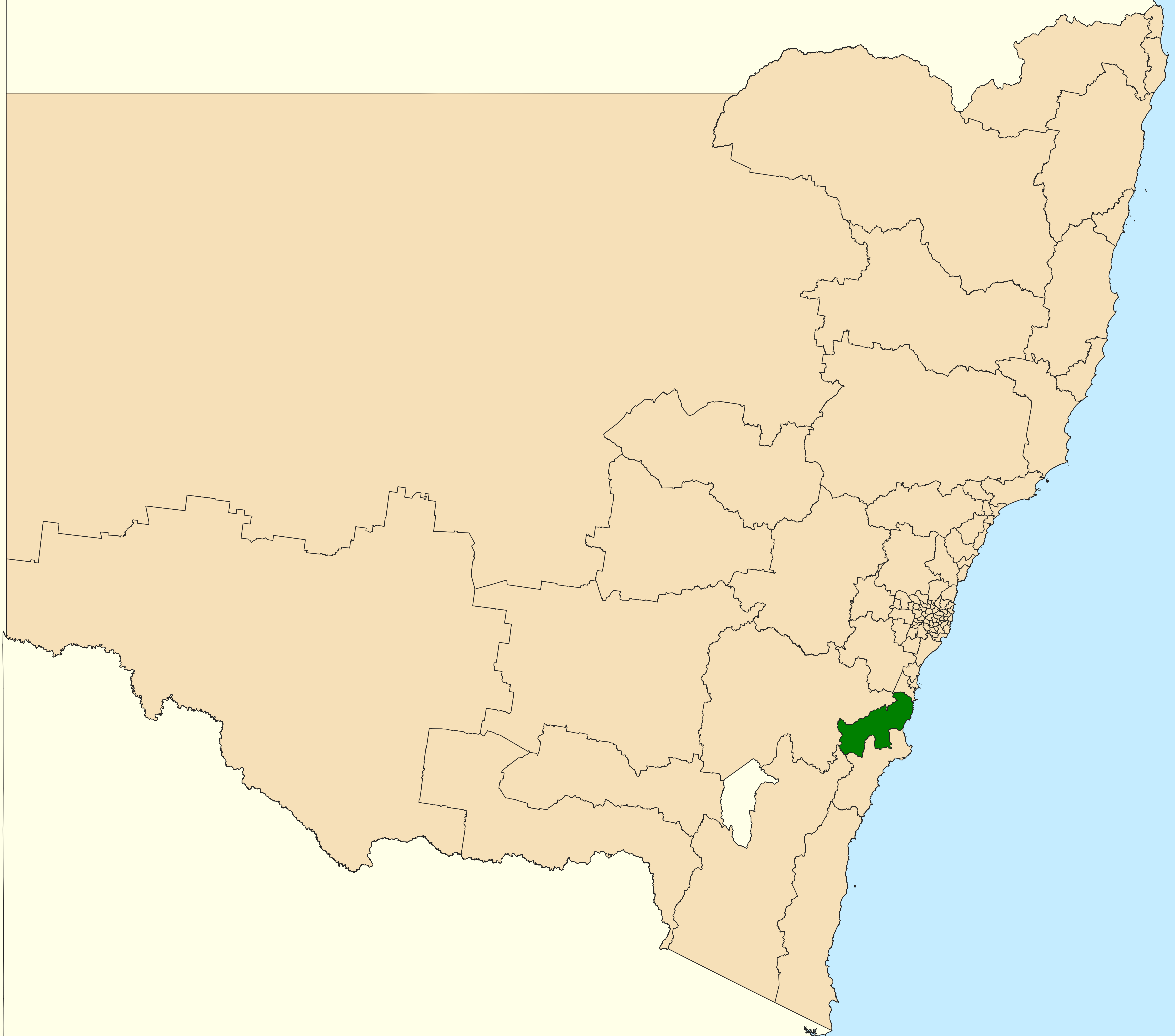 Location of the state electoral district of Kiama (dark green) in New South Wales as of the 2019 New South Wales state election. Incorporates or developed using Administrative Boundaries ©PSMA Australia Limited licensed by the Commonwealth of Australia under Creative Commons Attribution 4.0 International licence (CC BY 4.0).